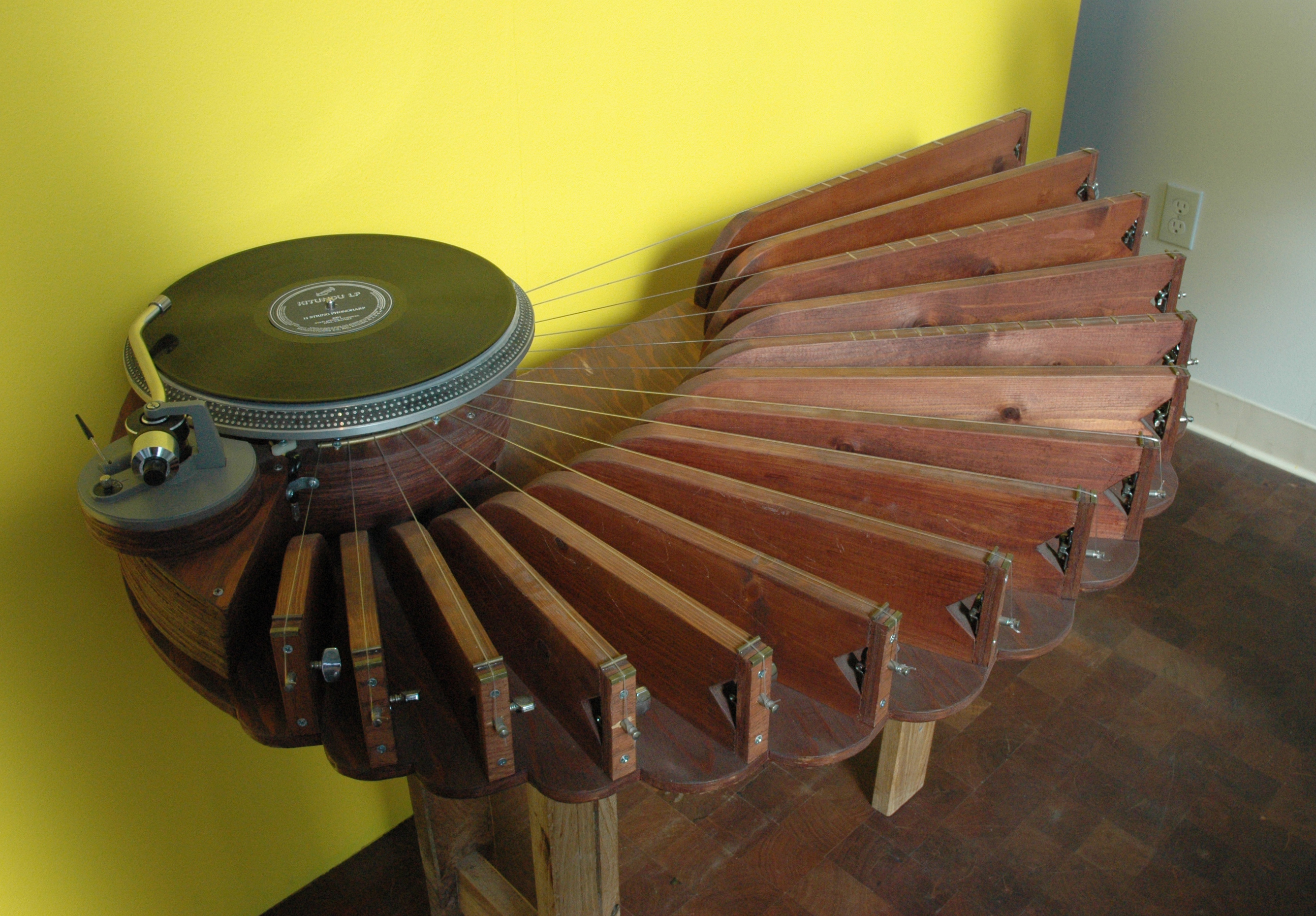 Phonoharp by Walter Kitundu, seen at the Museum of Craft and Folk Art in San Francisco, CA. The Phonoharp, introduced in 2001, is a stringed musical instrument with the phonograph turntable serving as a pickup. The strings' vibrations are passed to the turntable platter and are retransmitted through the stylus and magnetic cartridge to the amplifier.